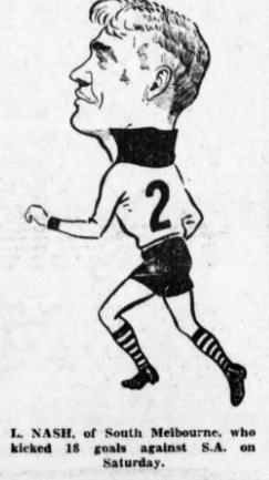 A 1934 cartoon of Laurie Nash